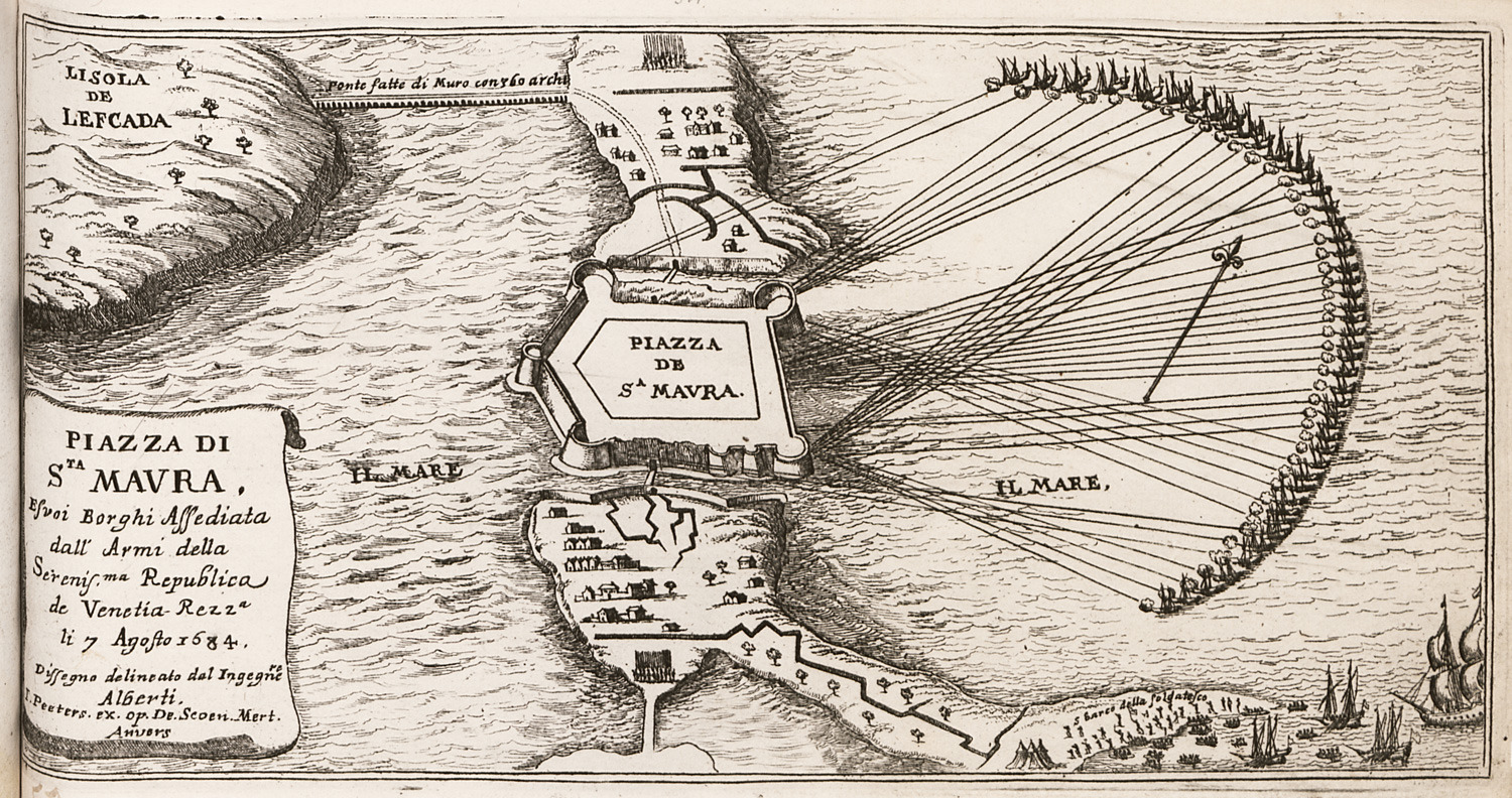 Jacob Peeters. Korte Beschryvinghe, Ende Aen-Wysinghe der Plaetsen in desfn Boeck, met hunnen teghenwoordigen Standt, pertinentelijck uytghebeldt, in Oostenryck, Antwerp, 1686